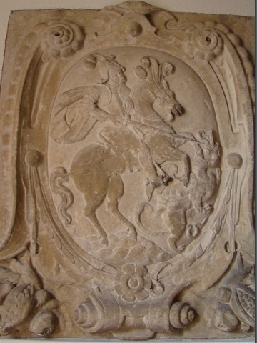 Gable stone from the citygate "Misterpoort" at Bredevoort. In the present day kept in the entryhall of the Gregroriuschurch.